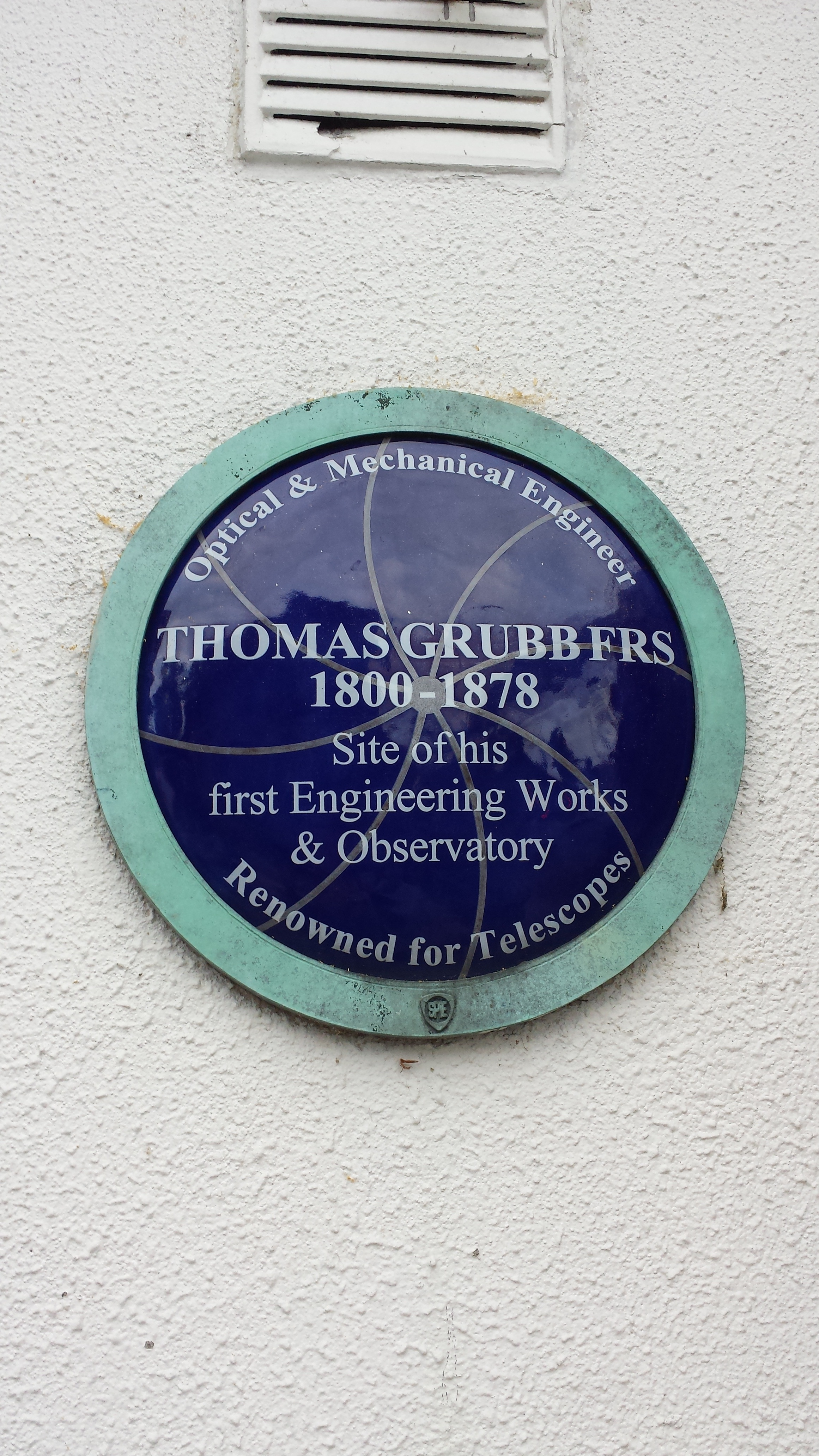 Thomas Grubb FRS 1800-1879 Site of his first Engineering Works & Observatory